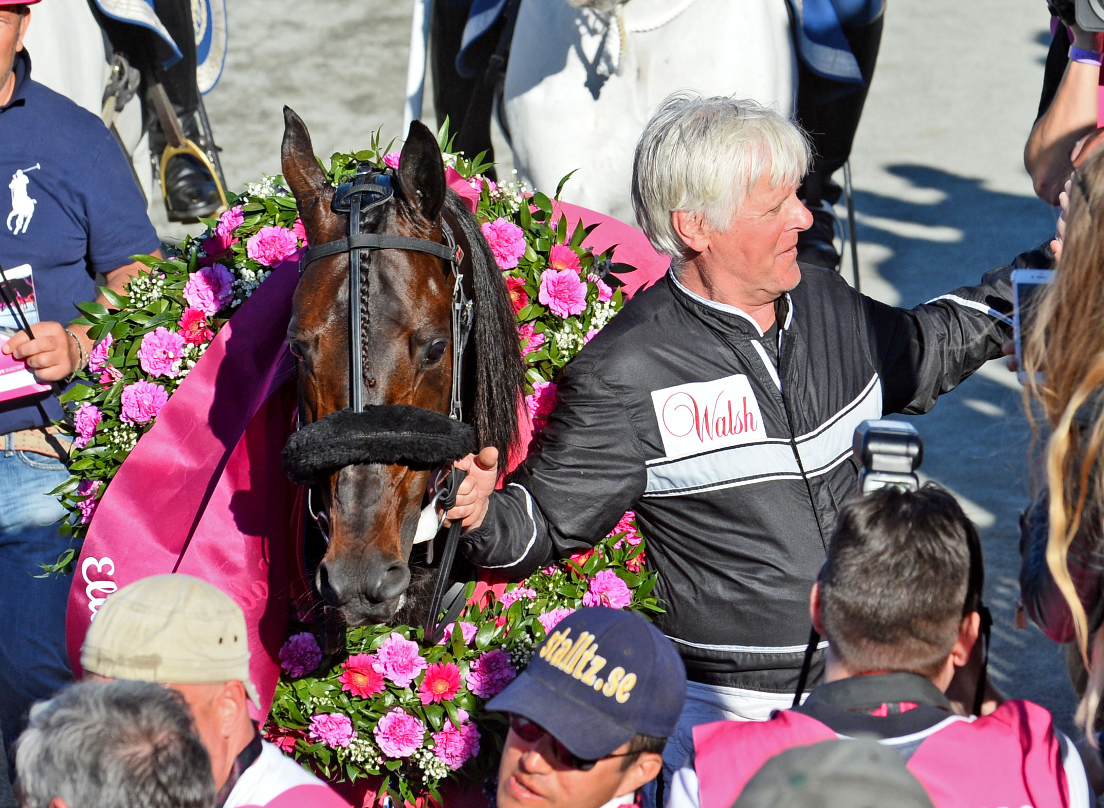 Ringostarr Treb and Jerry Riordan after winning Elitloppet 2018.